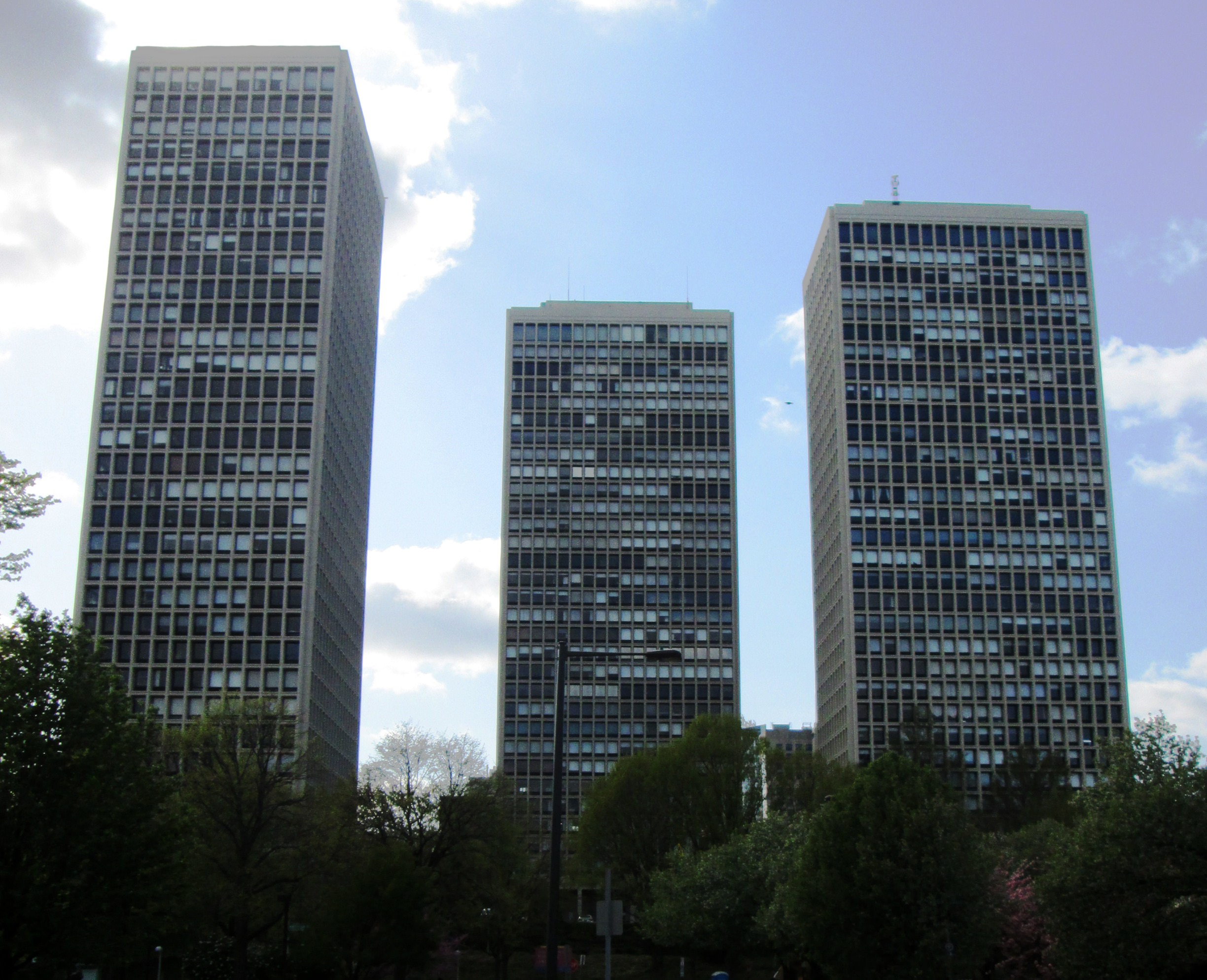 Society Hill Towers is a three-building condominium development located at 200 Locust Street in the Society Hill neighborhood of Philadelphia, Pennsylvania. The complex contains three 31-story skyscraper buildings on a 5 acre (2 ha) site. The towers, originally rental apartment buildings, were designed by I.M. Pei and Associates and were completed in 1964.